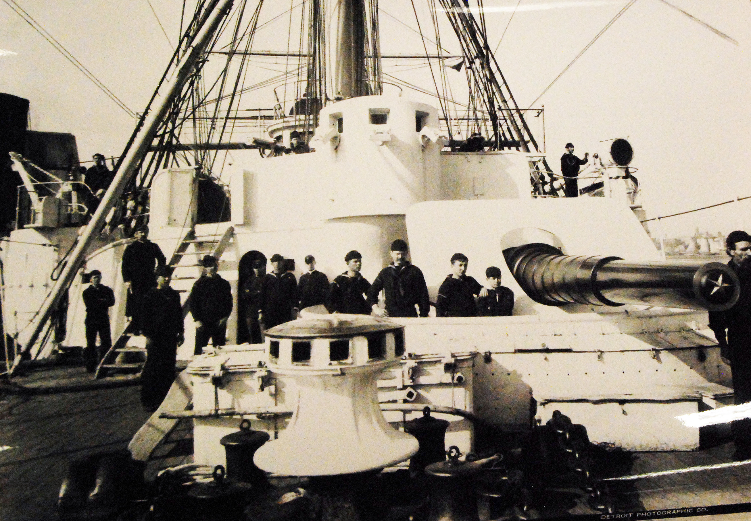 Lot 9756-3: U.S. Navy protected cruiser, USS Atlanta, showing the forecastle and 8 inch gun. Detroit Publishing Company, 1890-1910. Note, the original is curved. (2016/02/25).